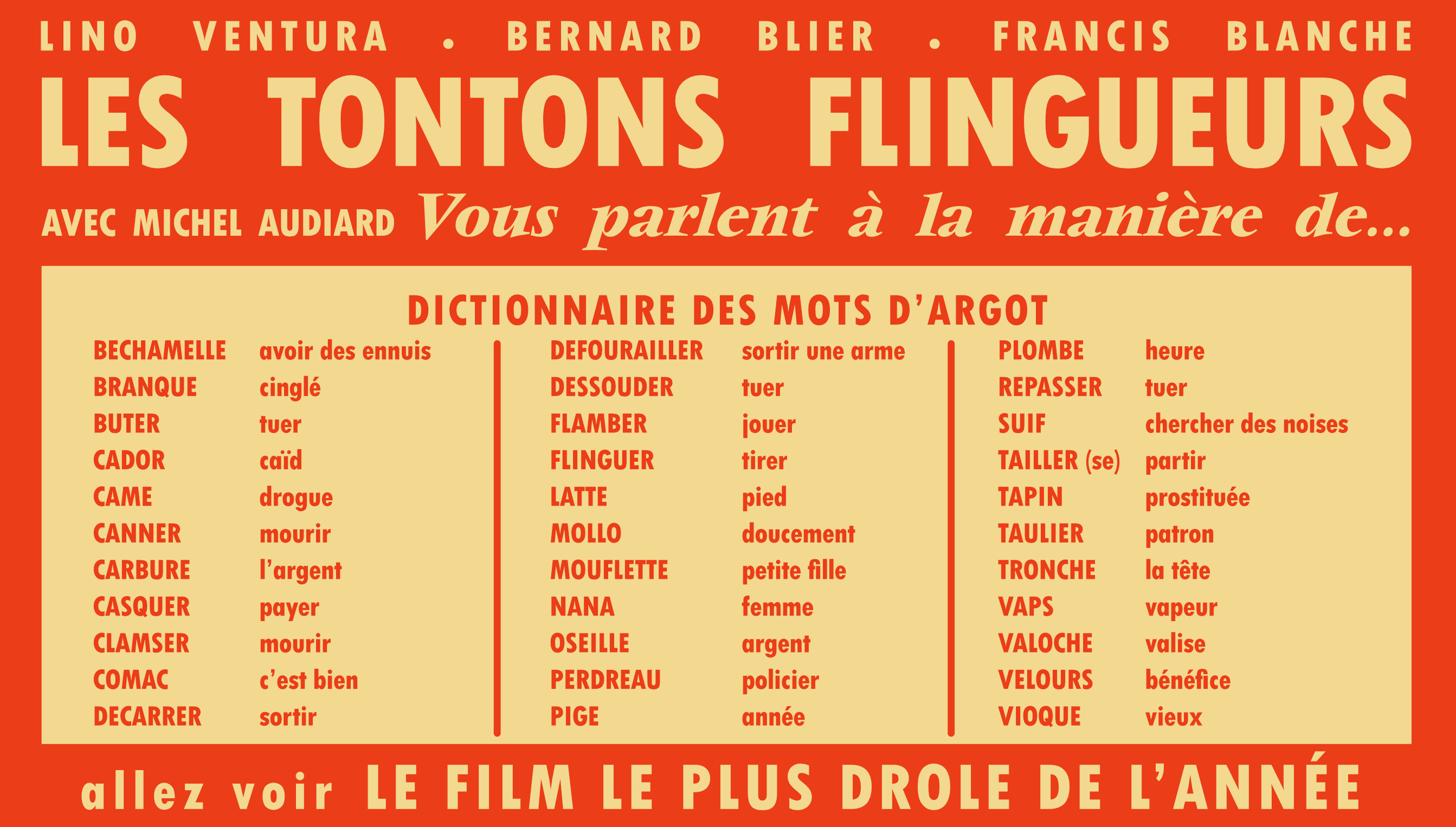 Main words of French slang (argot) from the movies "Les Tontons Flingueurs". Most of these words are now in common language. Exhibition Gaumont 120 years of movies in the 104 theater (Paris, France).